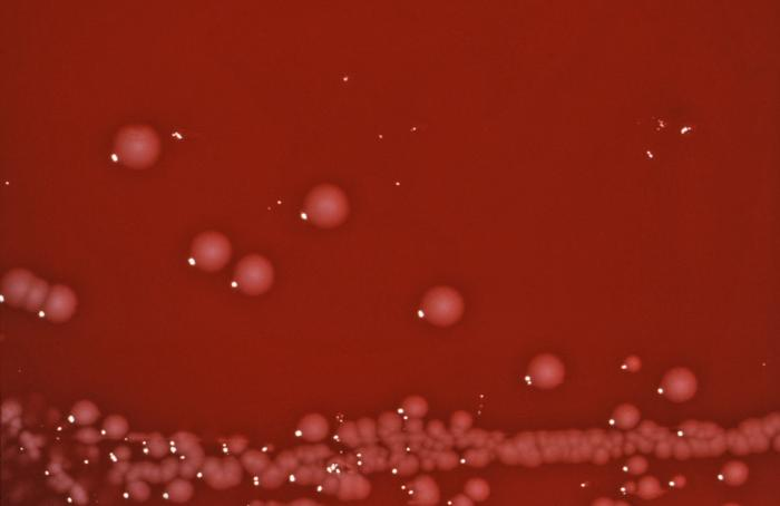 ID#: 6669 This photograph depicts the colonial morphology displayed by Gram-negative Shigella boydii bacteria on a blood agar plate (BAP). Four species from the genus Shigella, S. boydii, S. dysenteriae, S. flexneri, and S. sonnei, are the etiologic agents of the bacterial infection, shigellosis. Most who are infected with Shigella spp. develop diarrhea, which is often bloody, fever, and stomach cramps starting a day or two after they are exposed to the bacterium. Shigellosis usually resolves in 5 to 7 days.